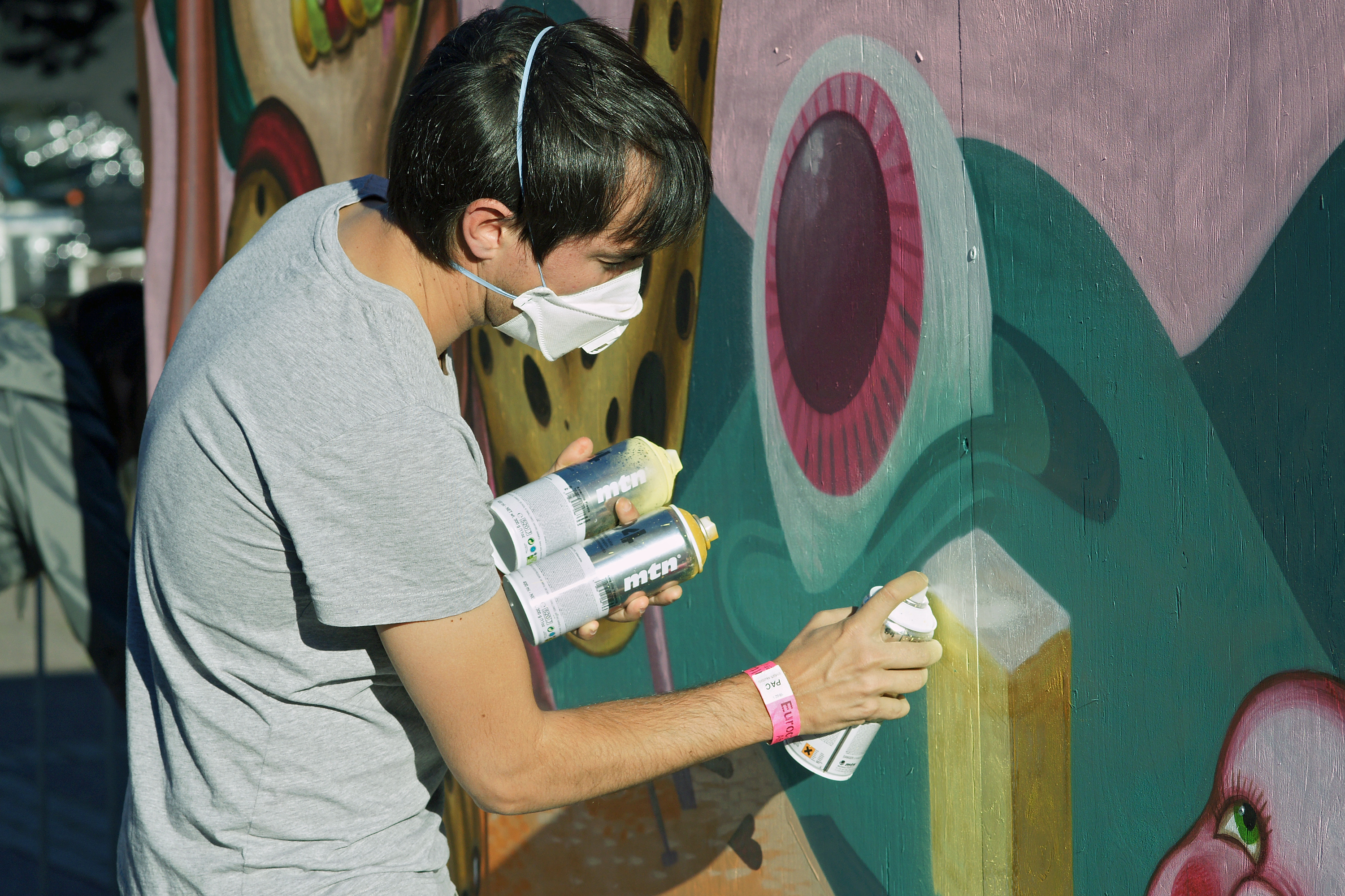 A graffiti artist at work in Eurofestival, Turku.